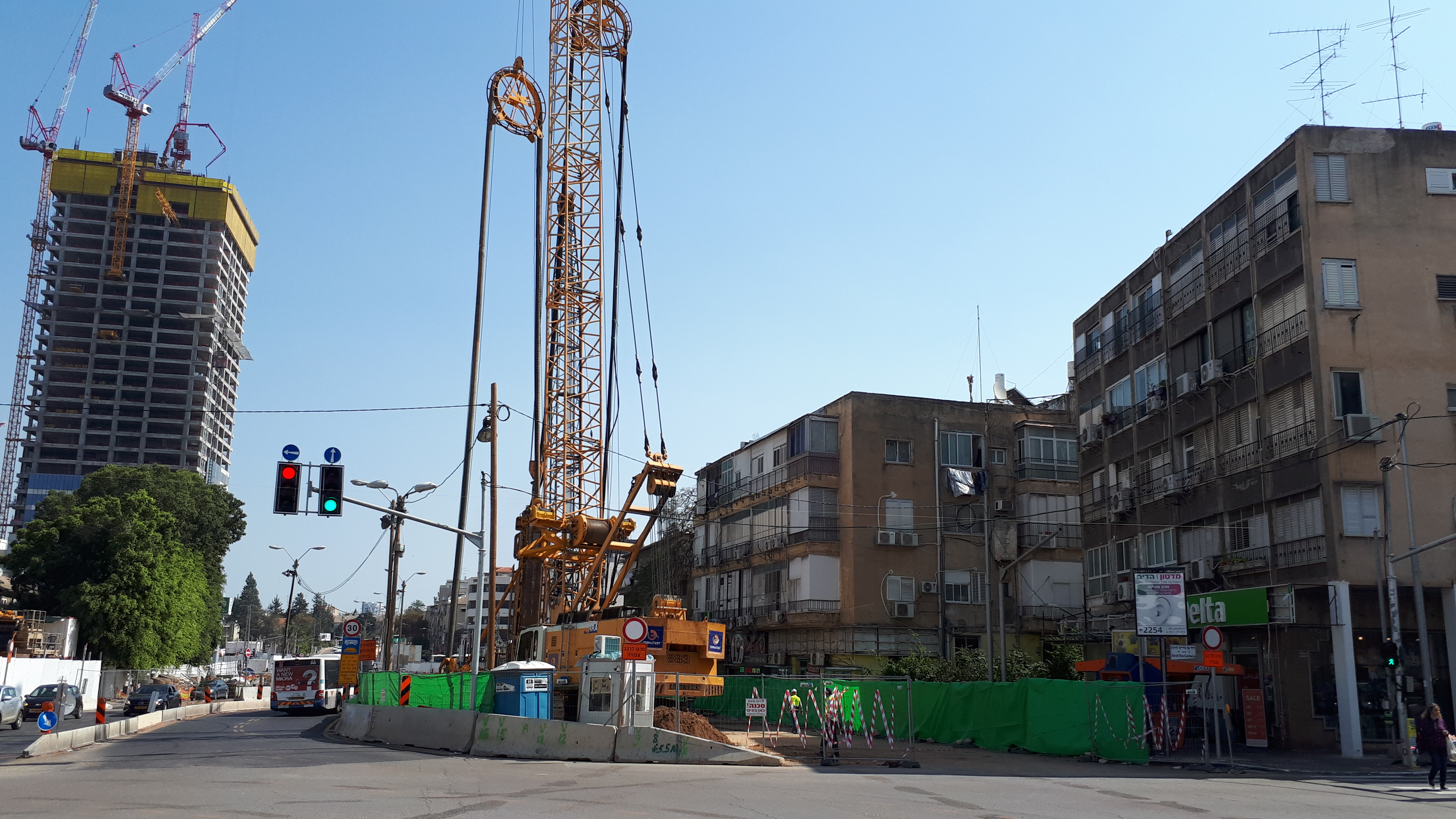 Construction site of Ben Gurion Light Rail Station, March 2018